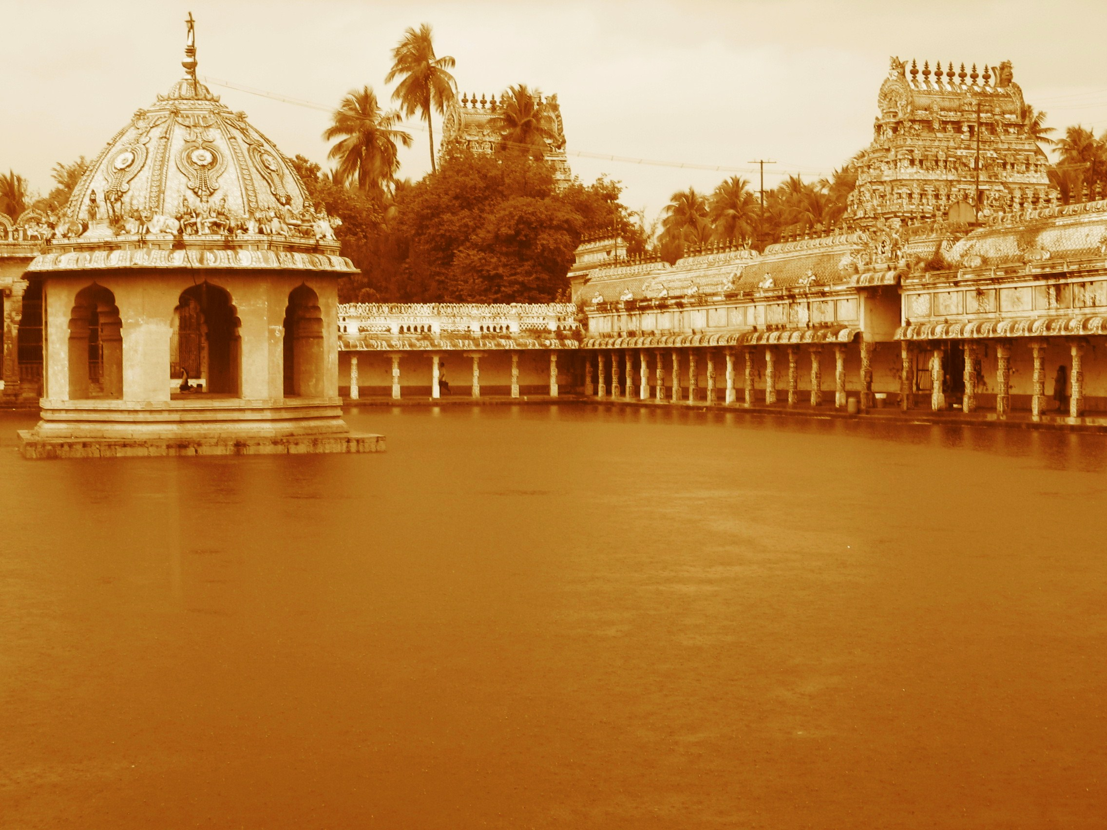 Author:Siddharth Permission is granted to copy, distribute and/or modify this document under the terms of the GNU Free Documentation License, Version 1.2 or any later version published by the Free Software Foundation; with no Invariant Sections, no Front-Cover Texts, and no Back-Cover Texts